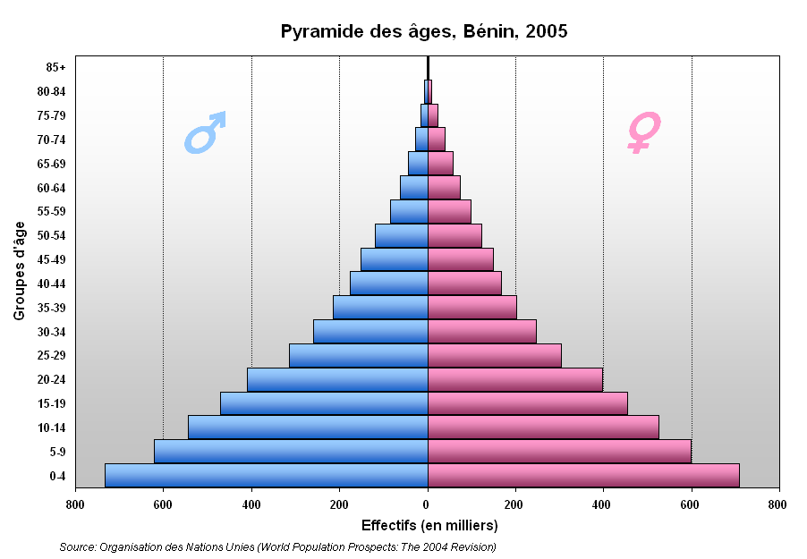 Benin Population pyramid, 2005